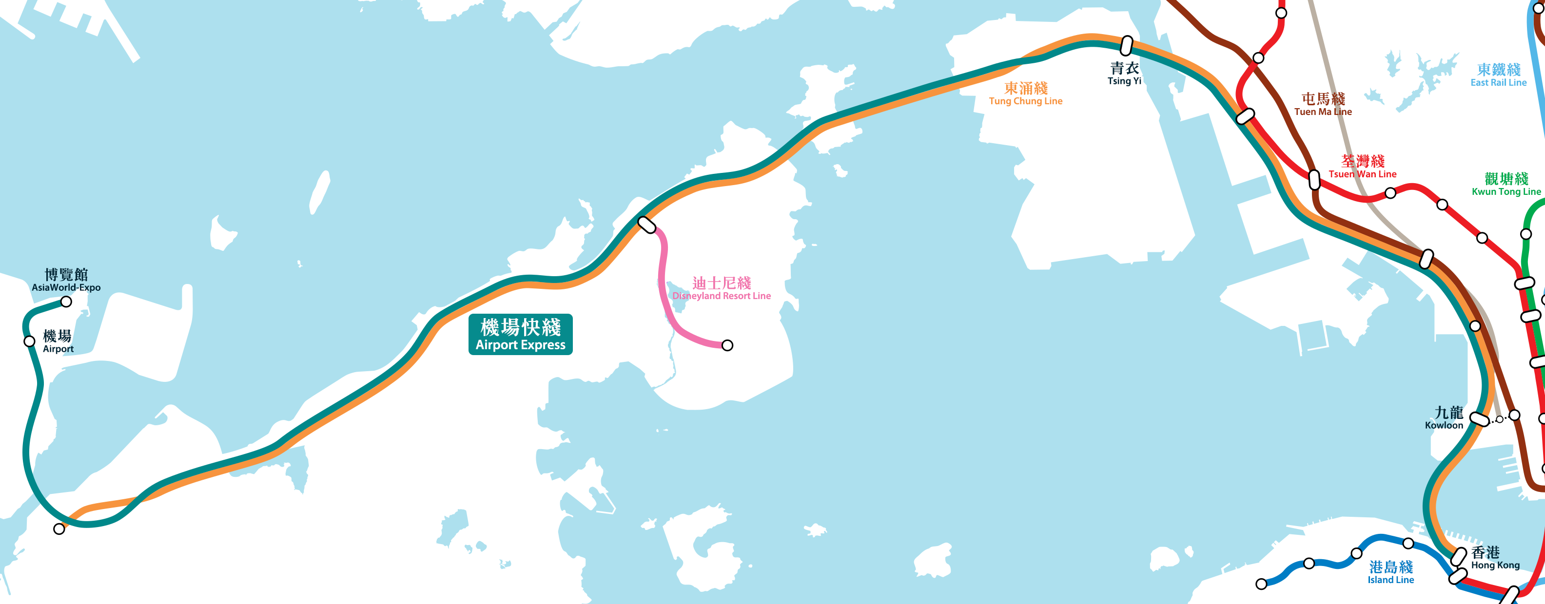 MTR Airport Express Geograpical Map